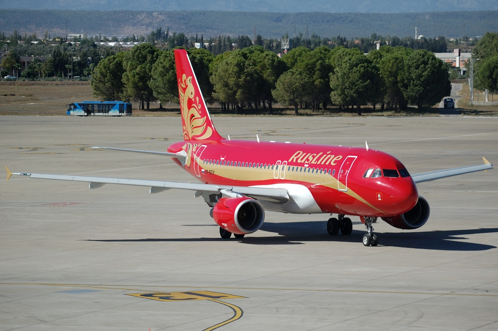 Airbus A319 Rusjet, Antalya Airport